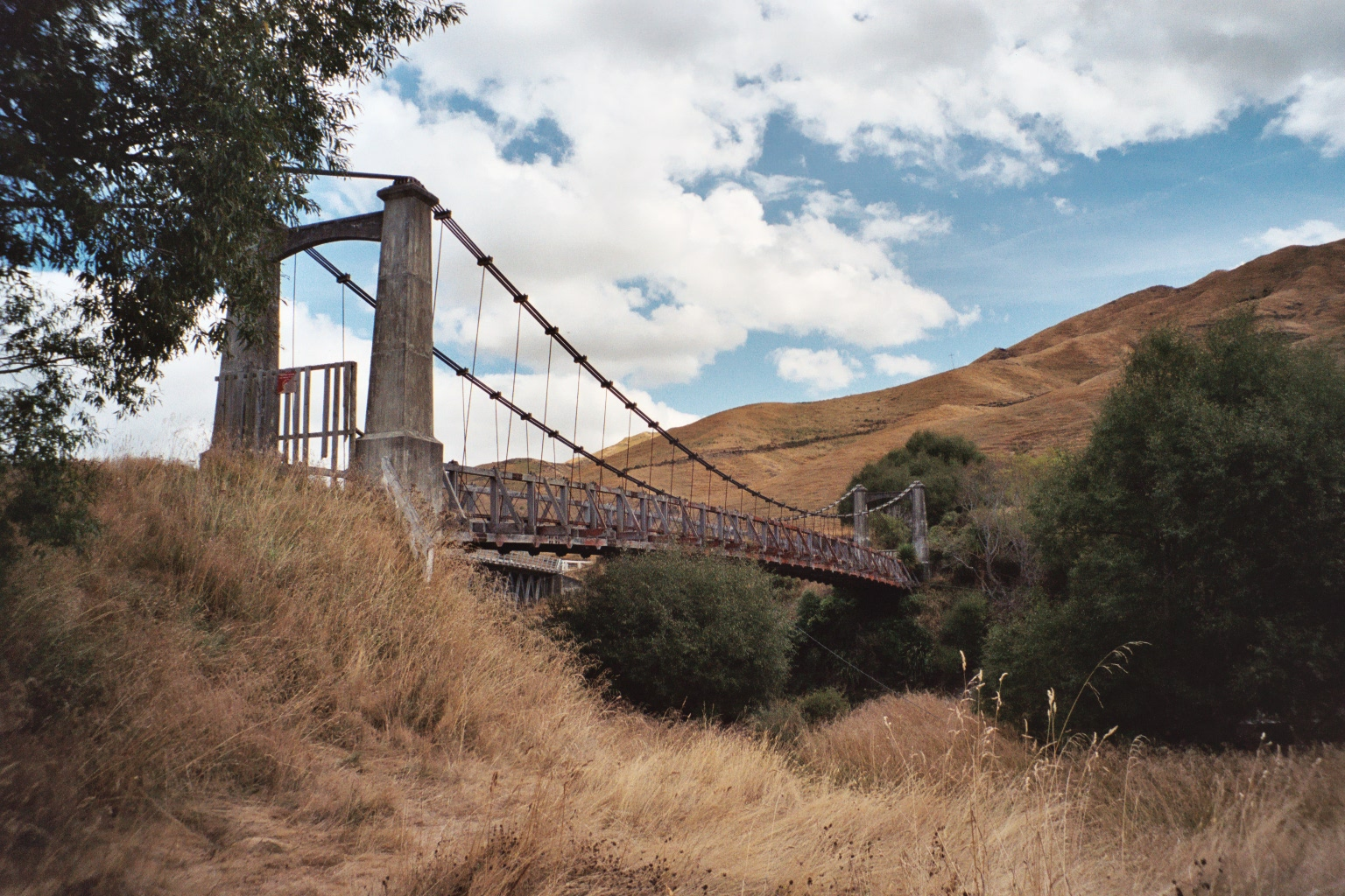 Springvale Suspension Bridge, Manawatu-Wanganui Region, North Island New Zealand